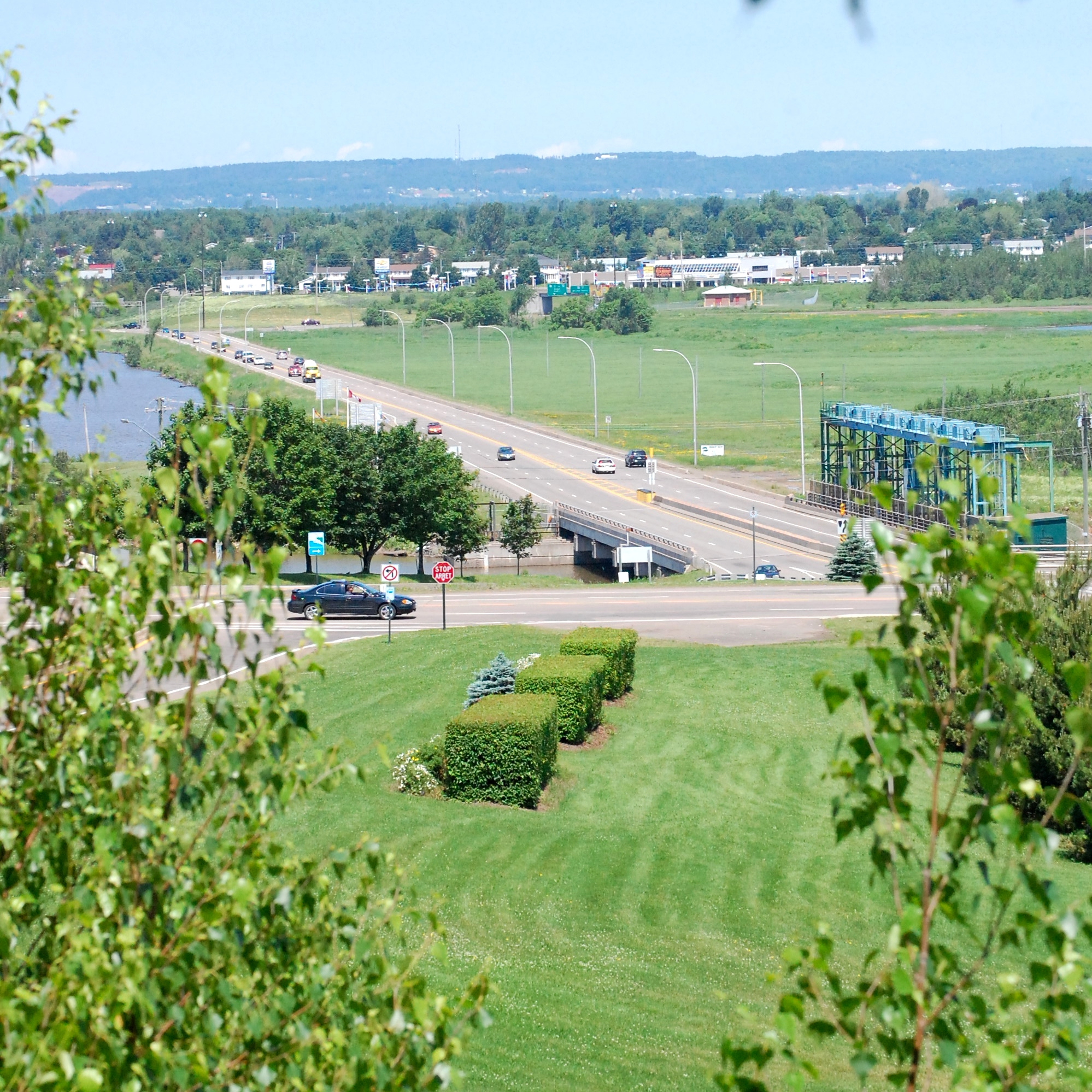 Riverview Causeway scross the Petitcodiac River, New Brunswick, Canada